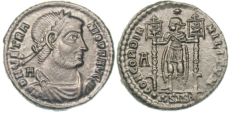 Vetriano (AD 350). AE maiorina (5.40 gm), Siscia mint. D N VETRA-NIO P F AVG, laureate, draped and cuirassed bust of Vetranio right, A behind CONCORDIA MILITVM, emperor standing left in military attire, holding two labara, star above his head, A in left field, •ASIS* in exergue. RIC 281. C. 1. LRBC 1168. RCTV 4041. Coin from Wildwinds. Used with permission.